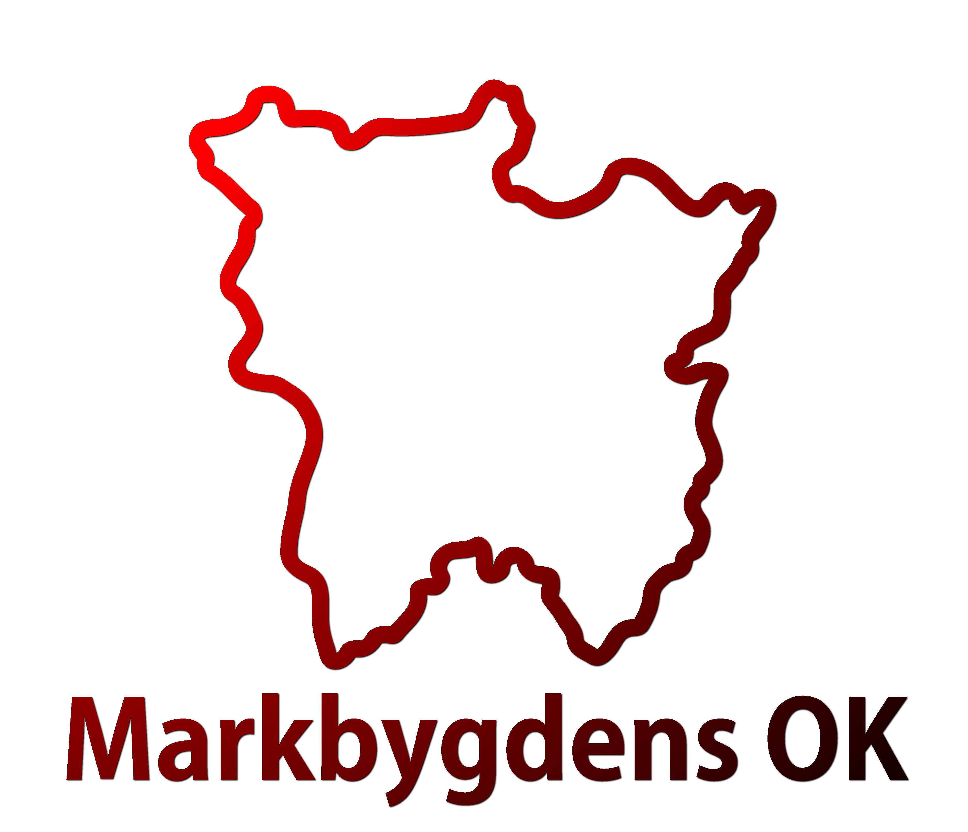 Markbygdens OK, inofficiell logotyp